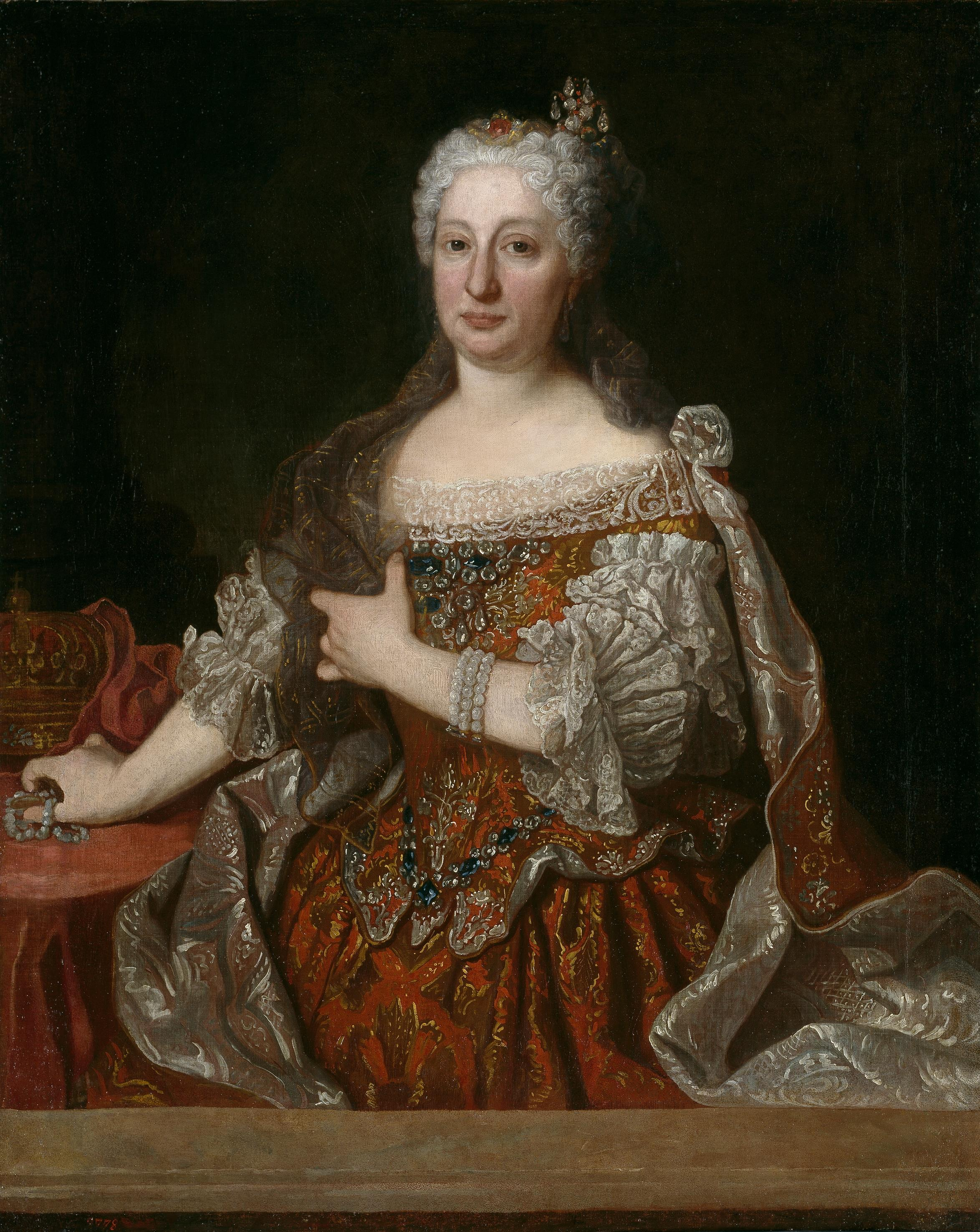 Maria Anna of Austria (1683-1754), Queen of Portugal